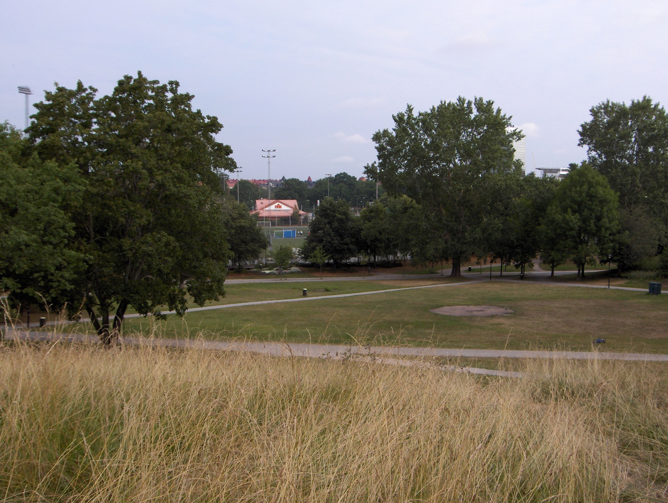 Skytteholm field in Solna, Sweden.